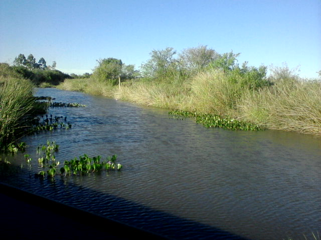 Image of the stream arroyo Mangrullo, which crosses Cerro Largo Department, Uruguay.